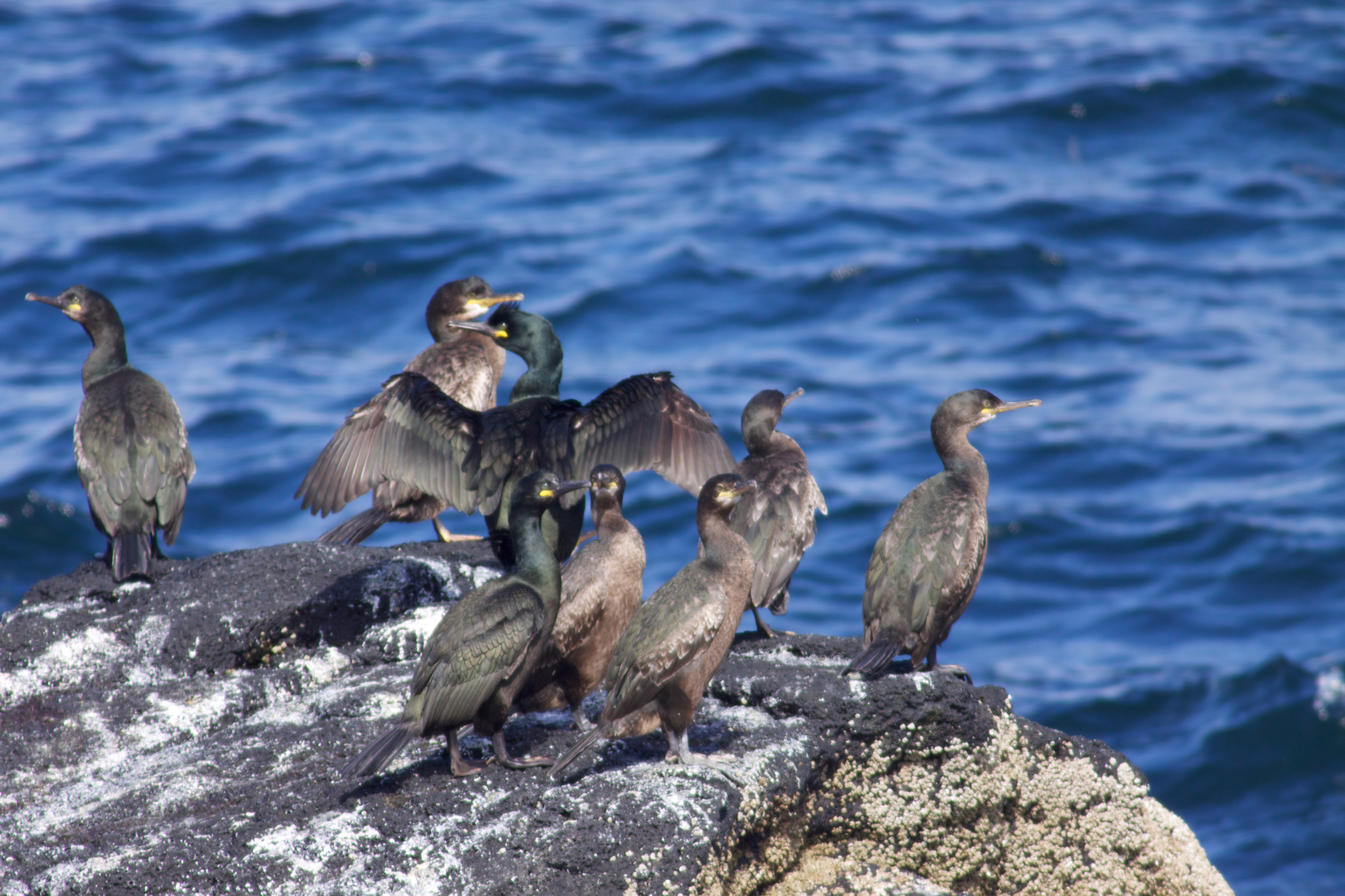 European Shags, two adults with green breeding plumes